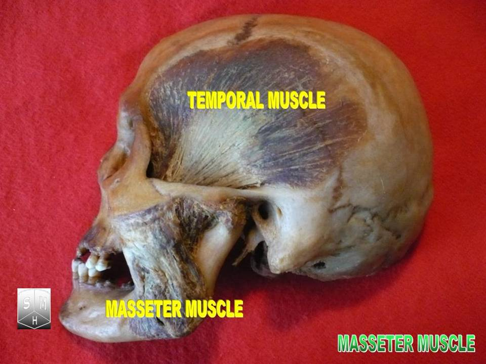 Masseter muscle